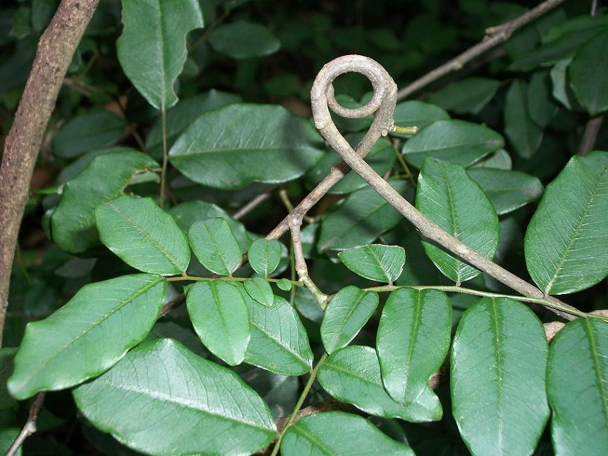 Foliage and branch of Dalbergia obovata from Umdoni Bird Sanctuary, Amanzimtoti, South Africa.